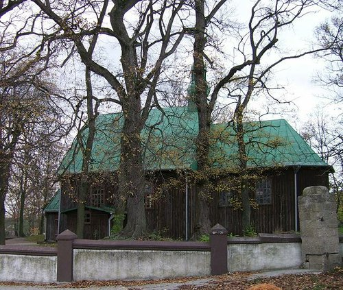 Church of the Assumption of the Blessed Virgin Mary, Gora, Sieradz County